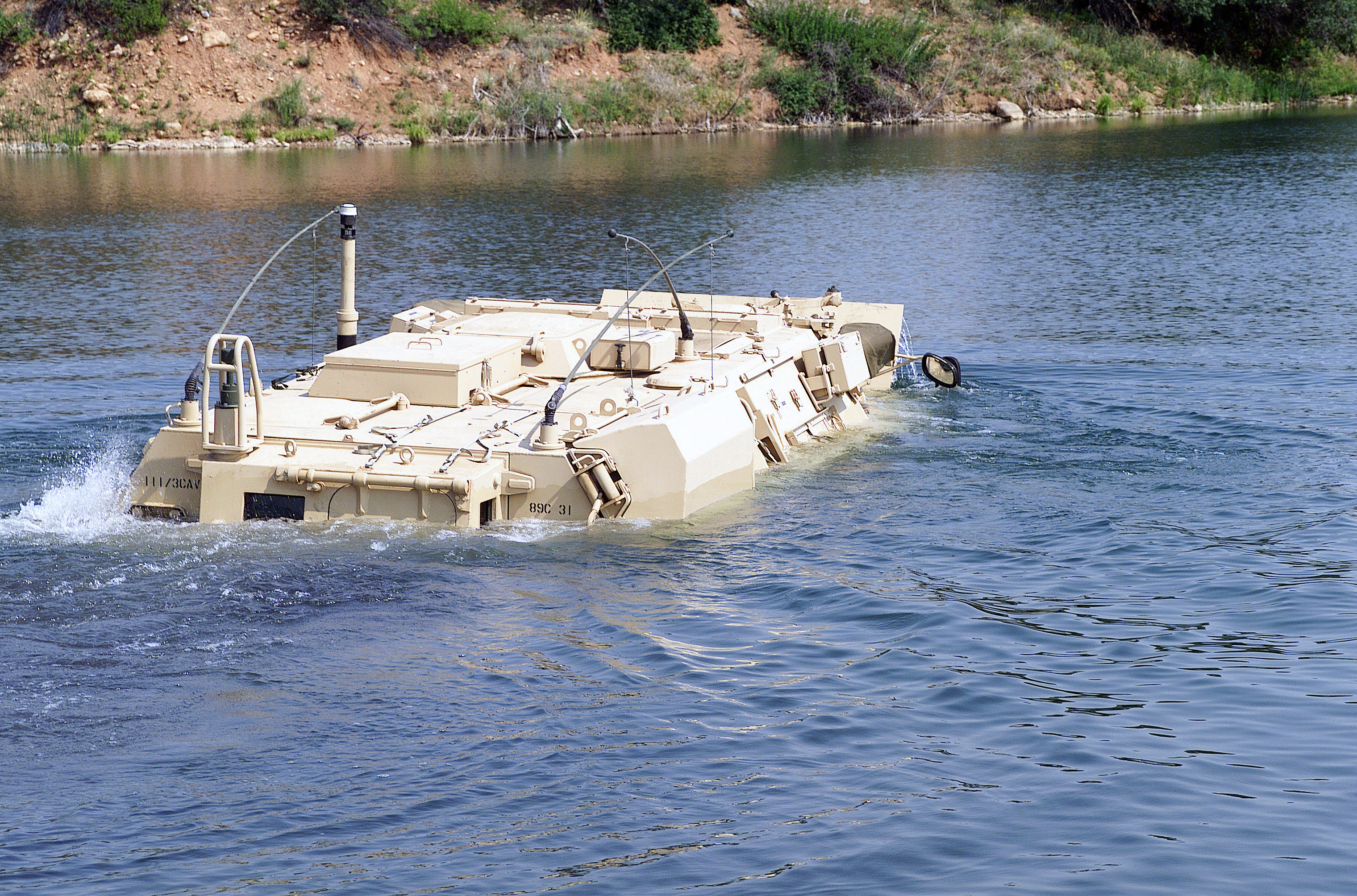 The 3 man crew of the M93A1 "FOX" armored Nuclear, Biological and Chemical (NBC) Reconnaissance System Vehicle has the vehicle buttoned up as it enters the water in Townsend Reservoir, Fort Carson, Colorado, for its maiden voyage. The 89th Chemical Conpany, 3rd ACR was doing Amphibious Operations with the FOX. The 40,400 pound vehicle has propellers for propulsion and steering. The FOX has a maximum speed of 6MPH in the water and 65MPH on land with a range of 500 miles